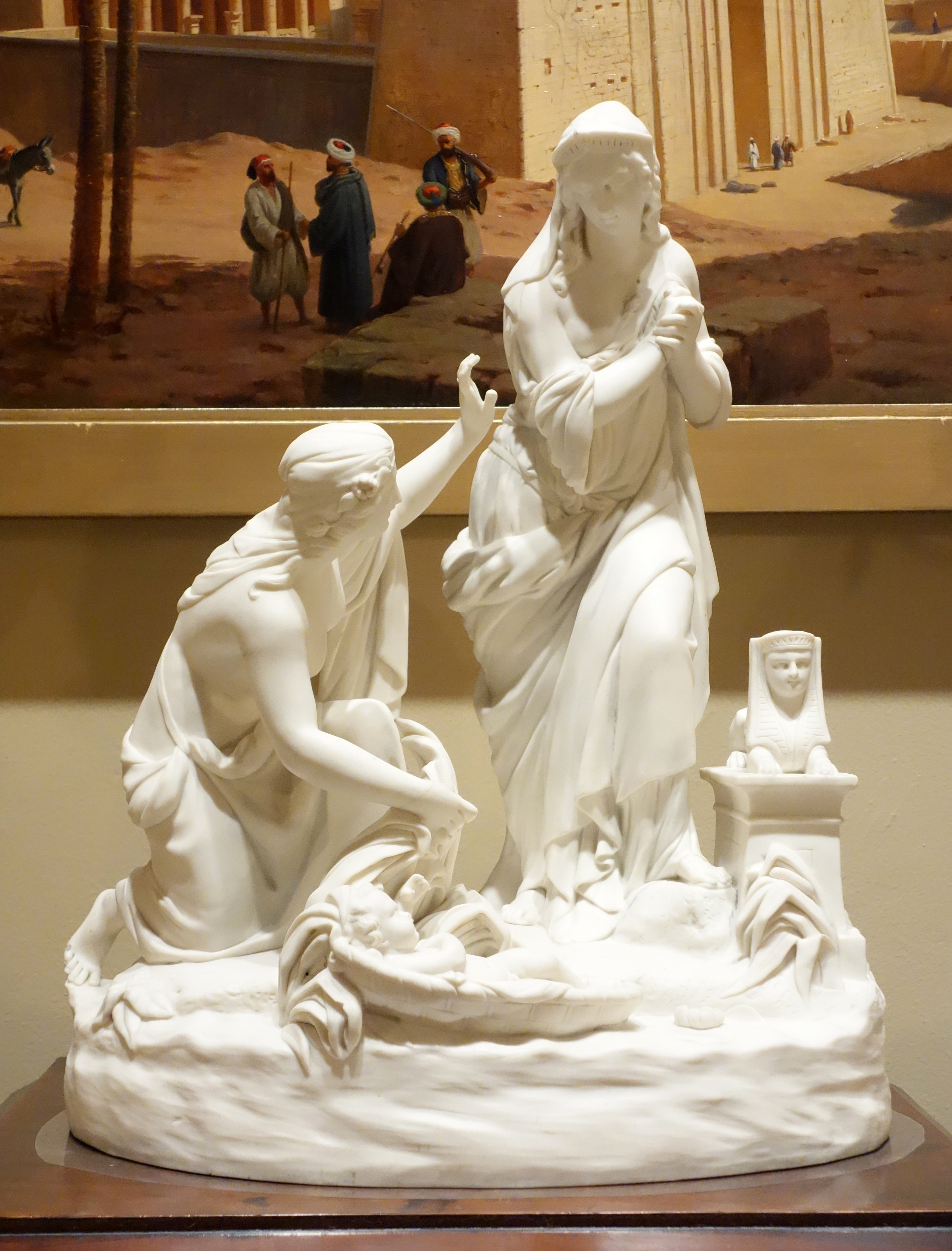 Exhibit in the Brooklyn Museum - Brooklyn, New York, USA. This artwork is in the public domain because the artist died more than 70 years ago.